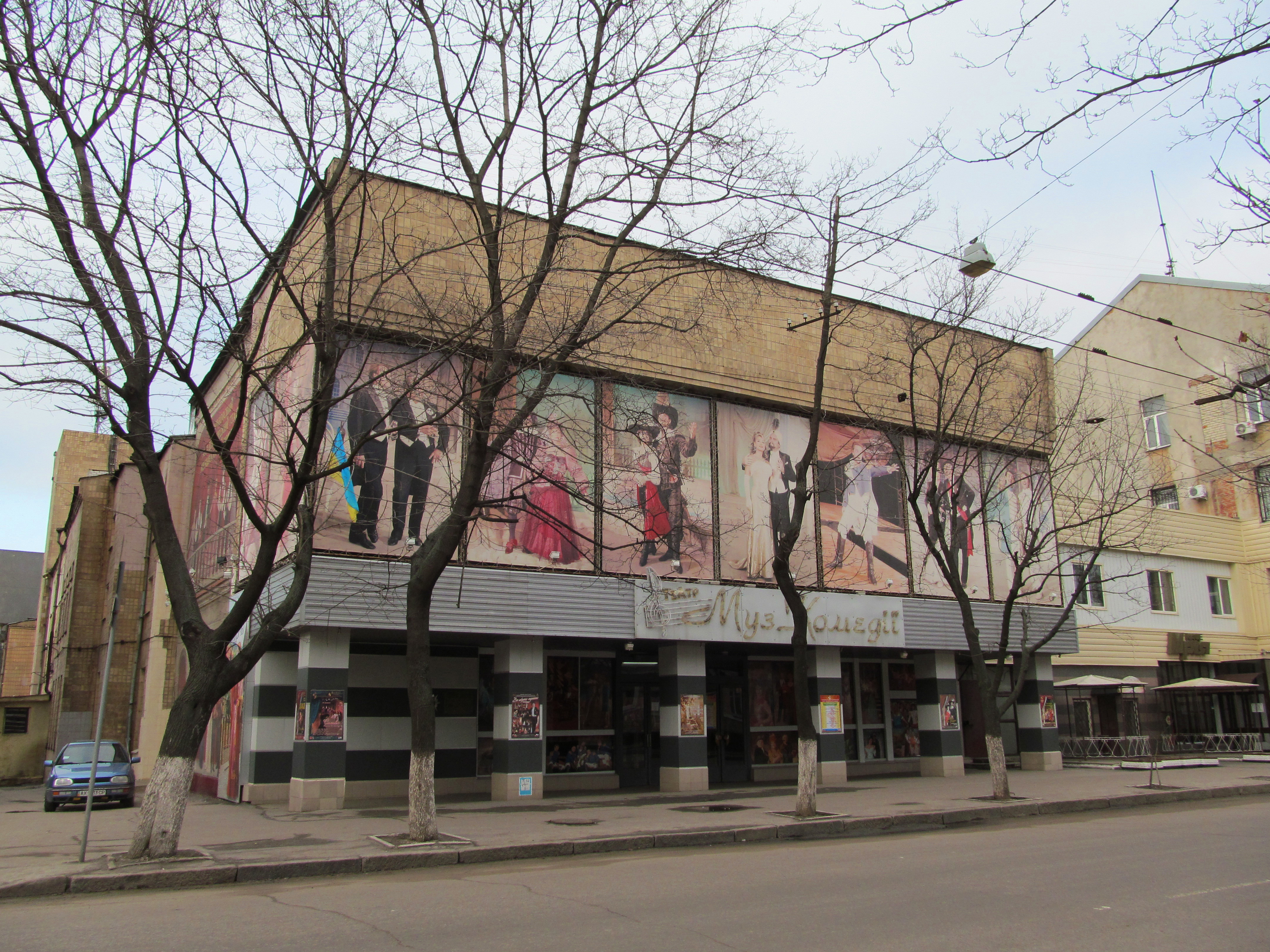 Blagovishchenska Street, 32, Kharkiv, Ukraine. Kharkiv Academic Theatre of Musical Comedy.